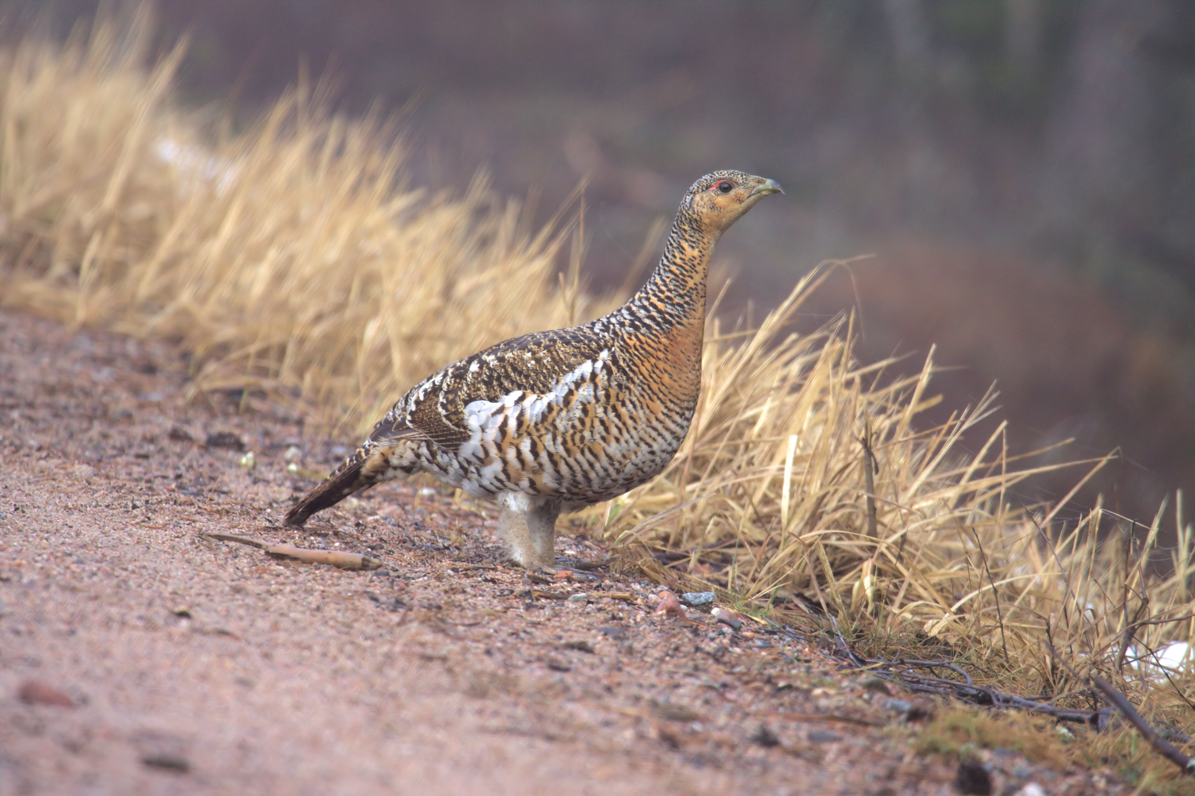 female Capercaillie